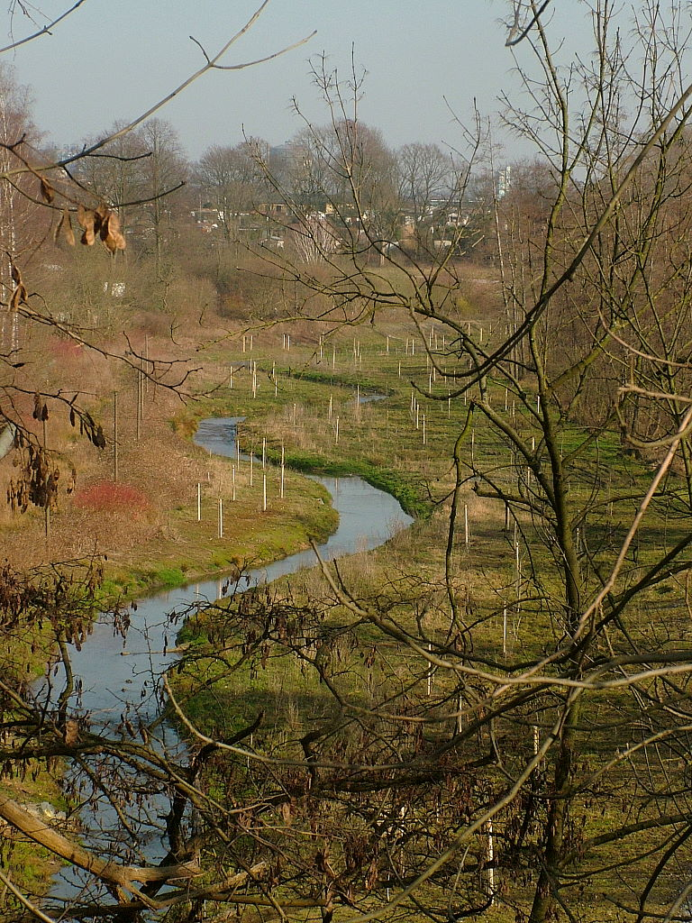 renaturation of the Emscher system: The Emscher in its new bed near Dortmund-Schönau